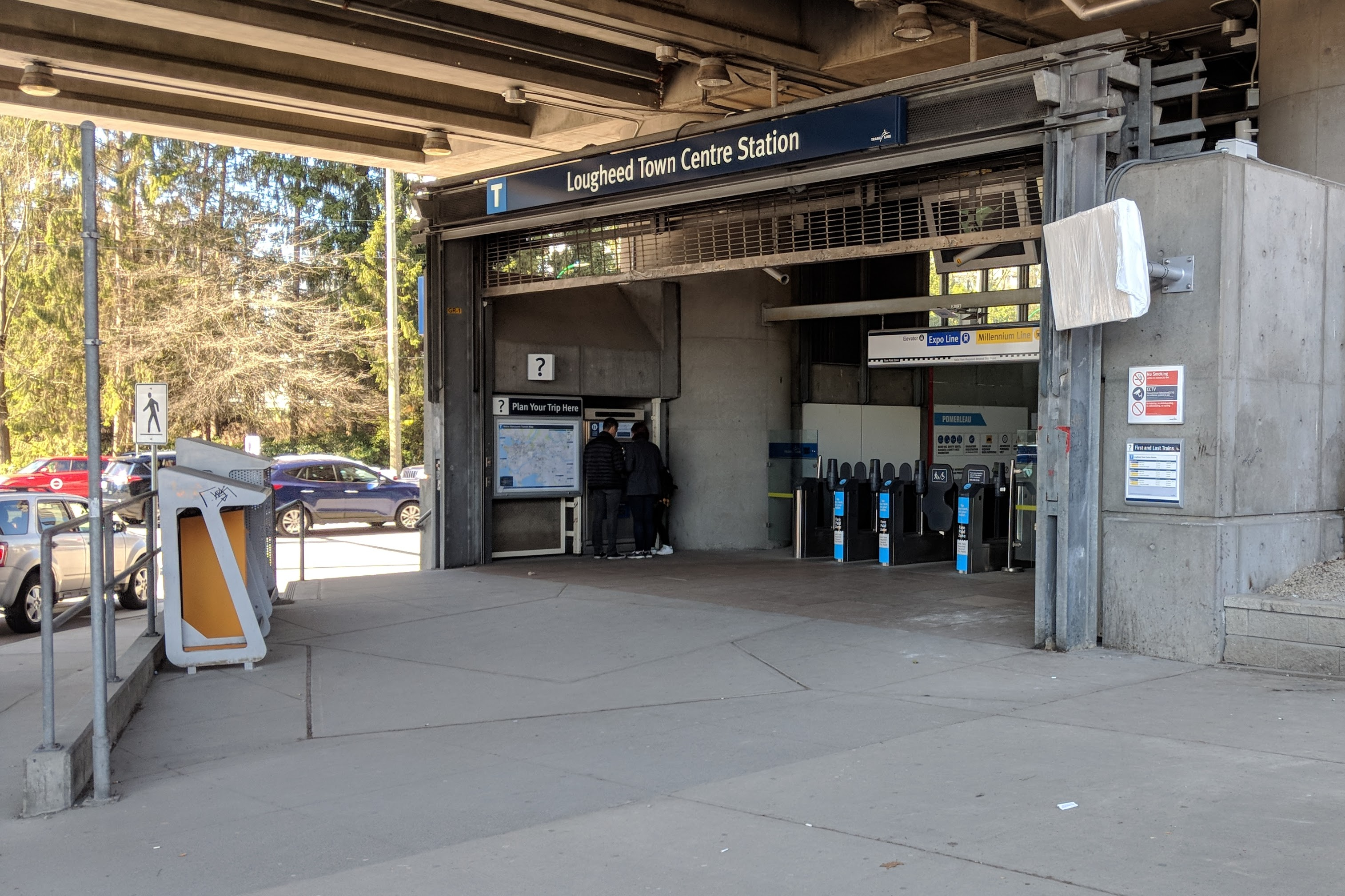 Austin Avenue entrance at Lougheed Town Centre station.